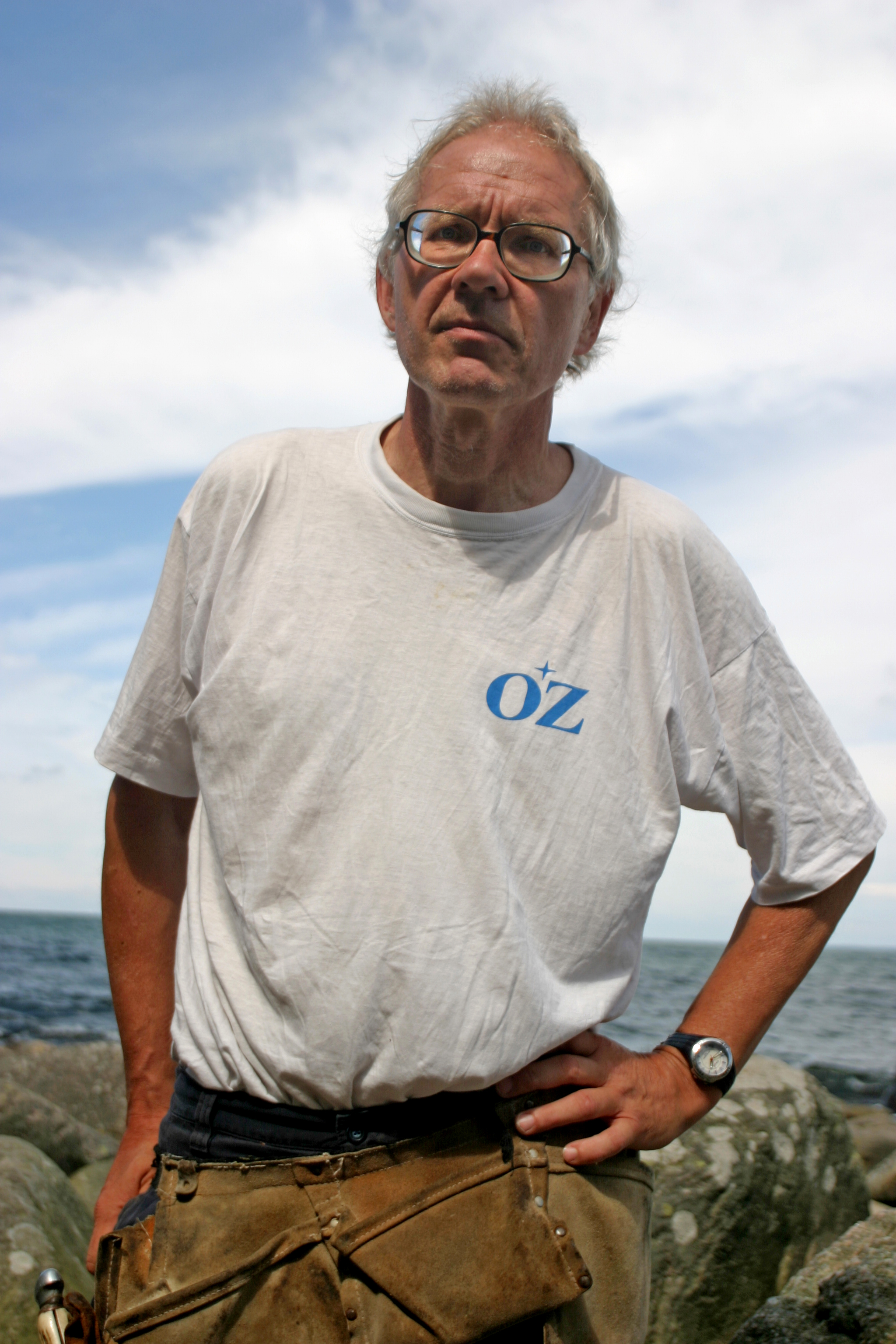 Swedish artist Lars Vilks (b. 1945)